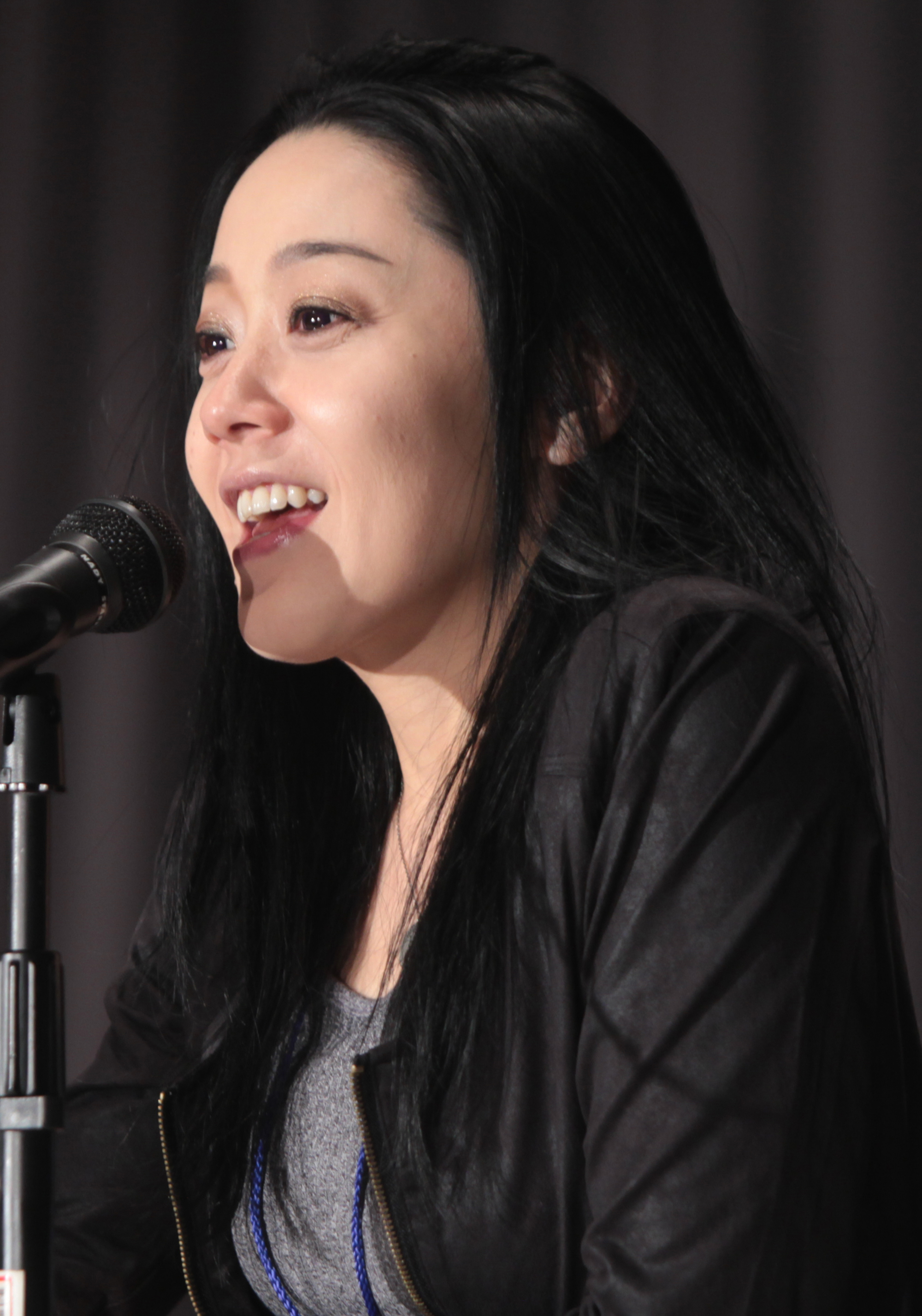 Yuu Asakawa at the 2016 Taiyou Con at the Mesa Convention Center in Mesa, Arizona.